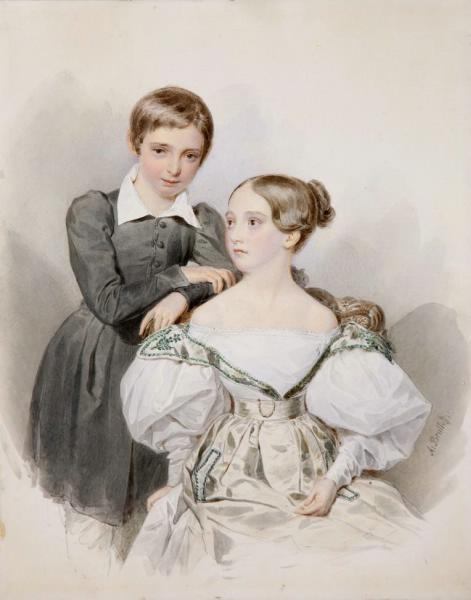 Portrait of Grand Duke Alexander Nikolaevich and Grand Duchess Maria Nikolaievna